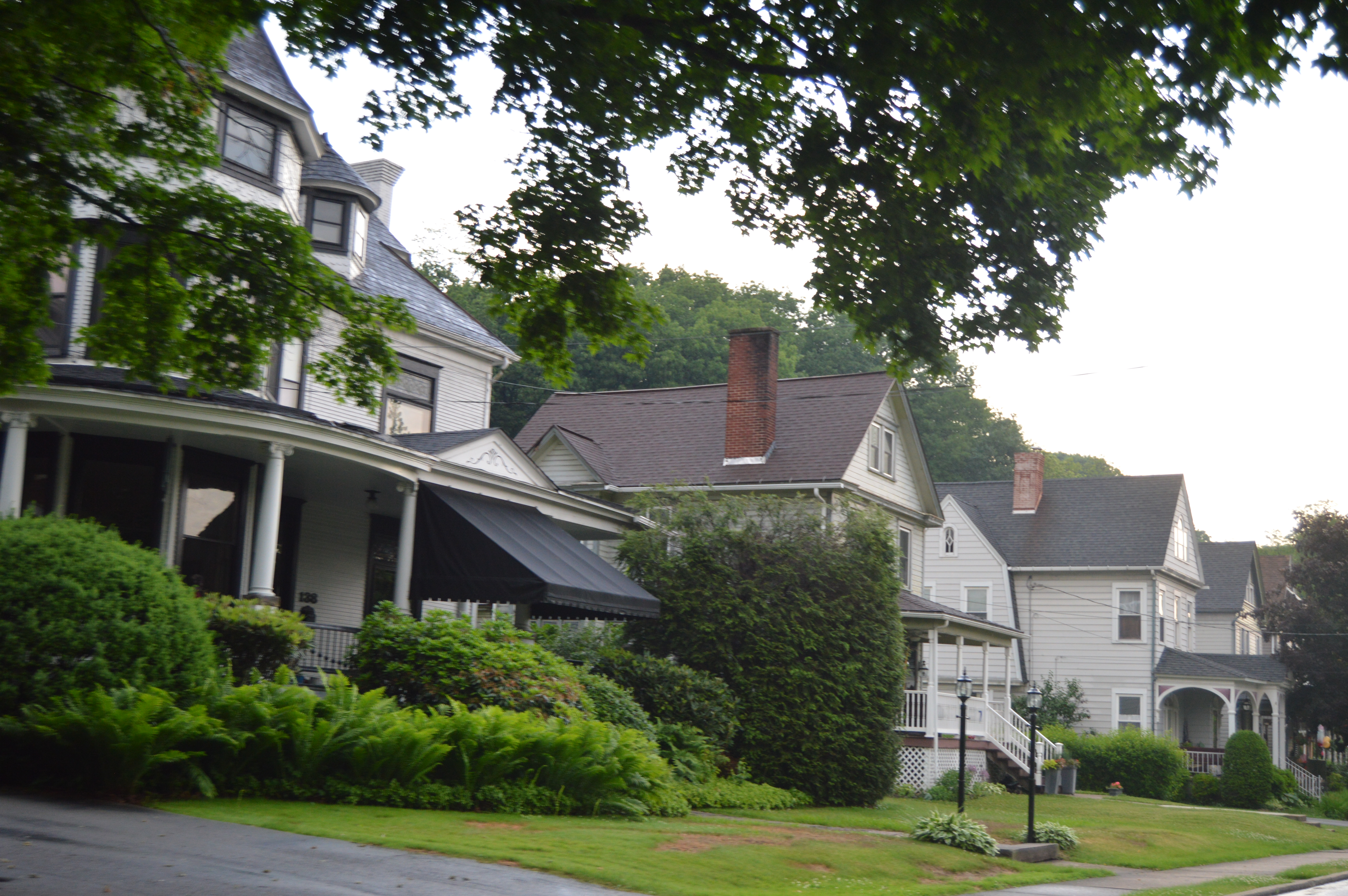 Houses on the western side of Allegheny Avenue north of the Poplar Street intersection in Applewold, Pennsylvania, United States.